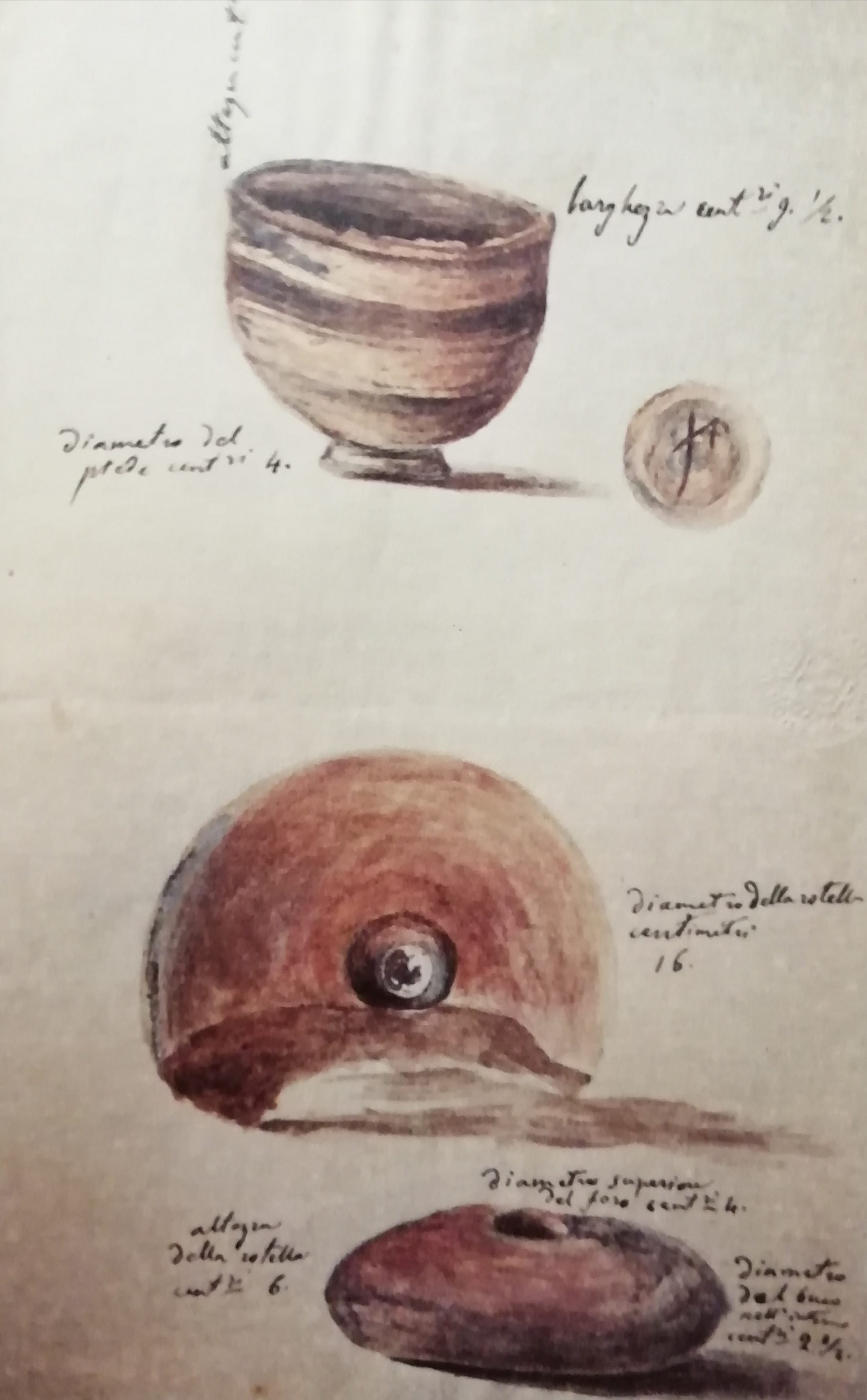 Luigi Bruzza Vercelli archaeology